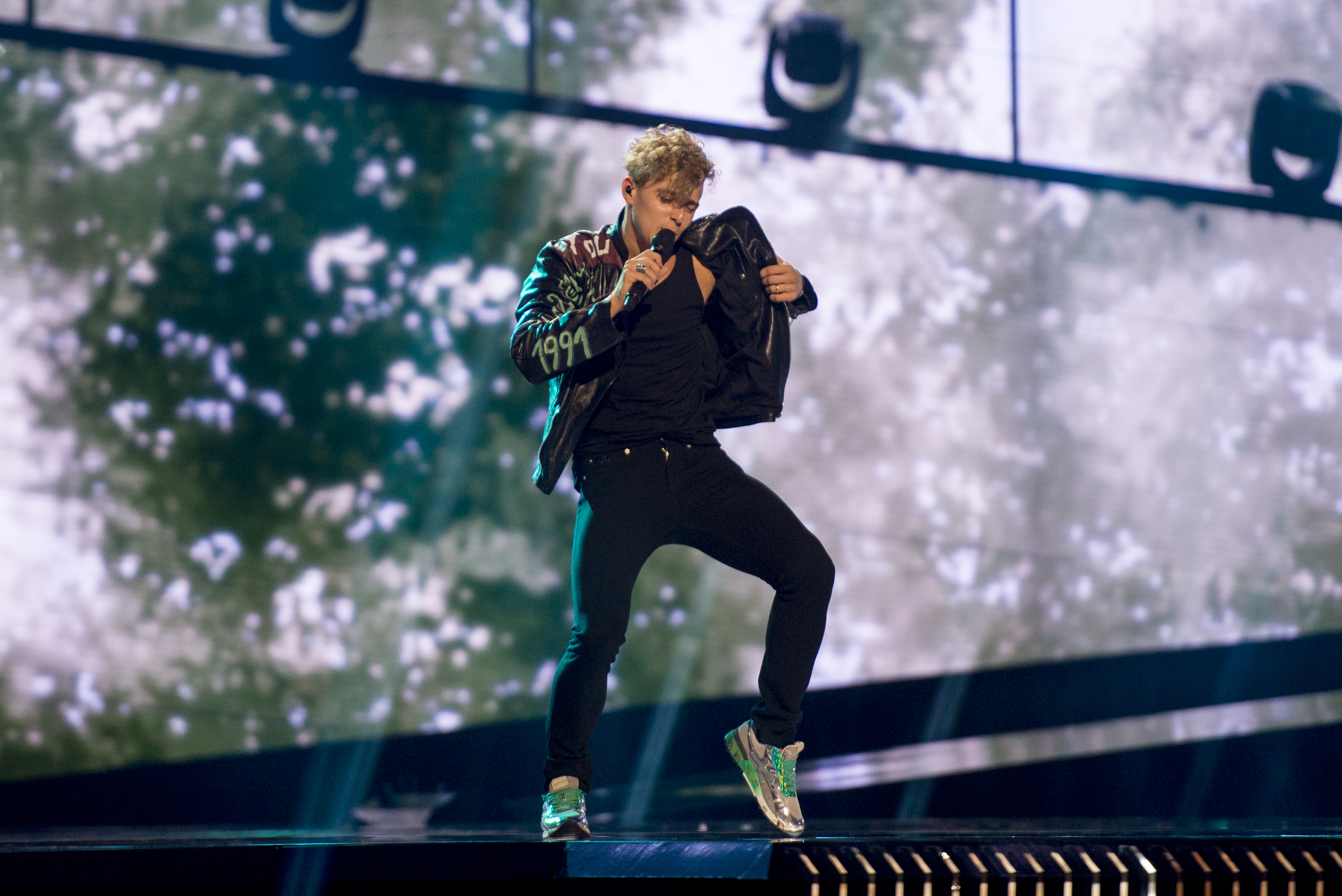 Donny Montell representing Lithuania with the song "I've Been Waiting for This Night" during a rehearsal before the second semi final of the Eurovision Song Contest 2016 in Stockholm. (Help translate this text)